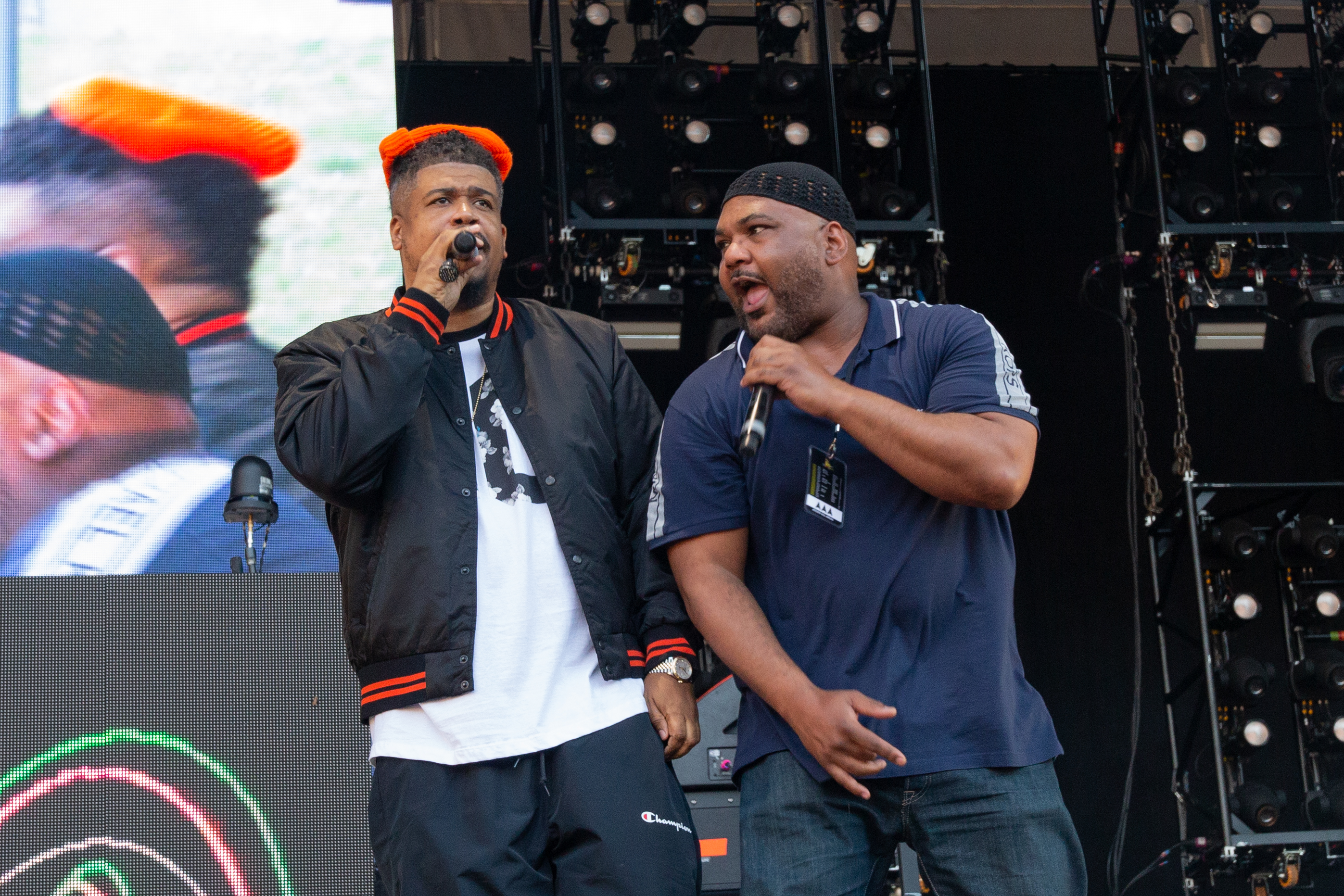 David Jude Jolicoeur aka Dave and Vincent Mason aka Maseo of De La Soul at Gods of Rap 2019 in Berlin, Germany - Parkbühne Wuhlheide